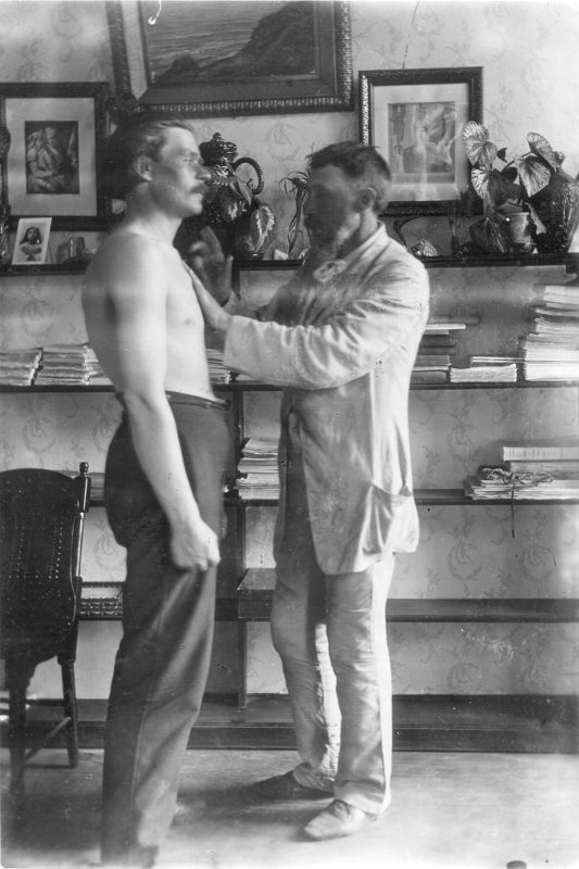 Doctor Nifont Dolgopolov and writer Maxim Gorky